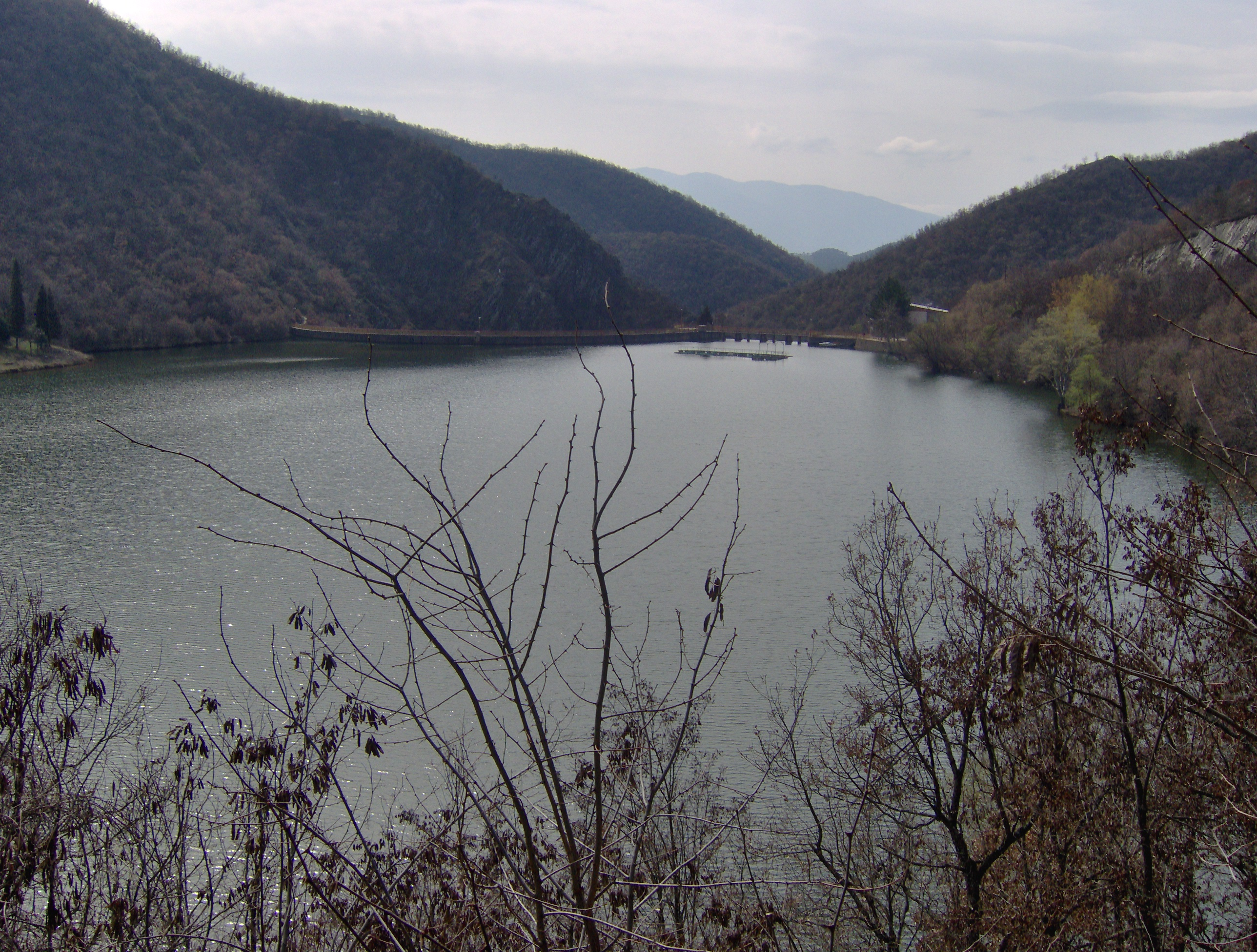 A view of Gratce Lake, Kocani, Republic of Macedonia